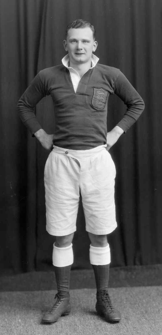 A L Novis, member of the British Lions rugby union team